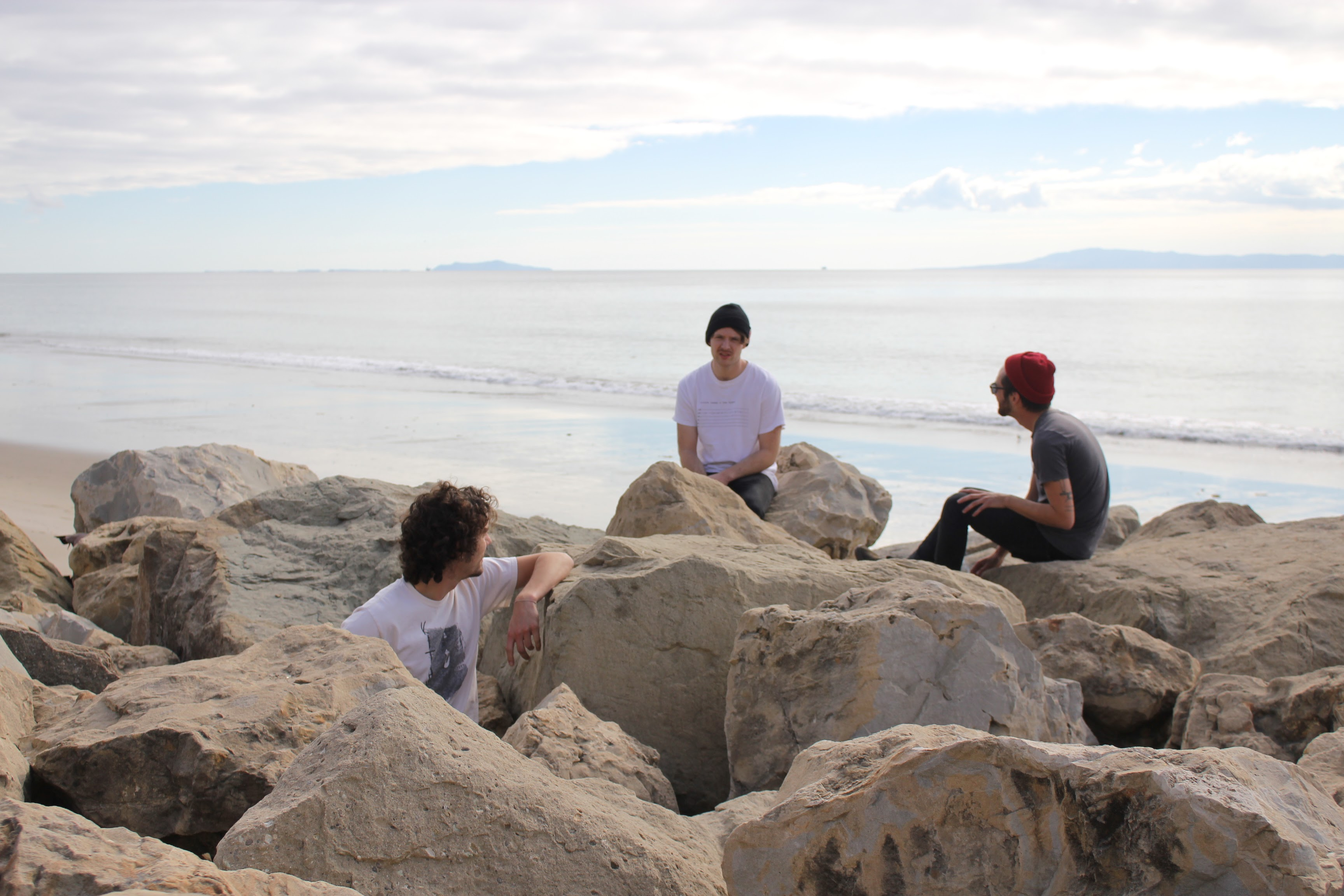 The Grilled Pineapple Tour